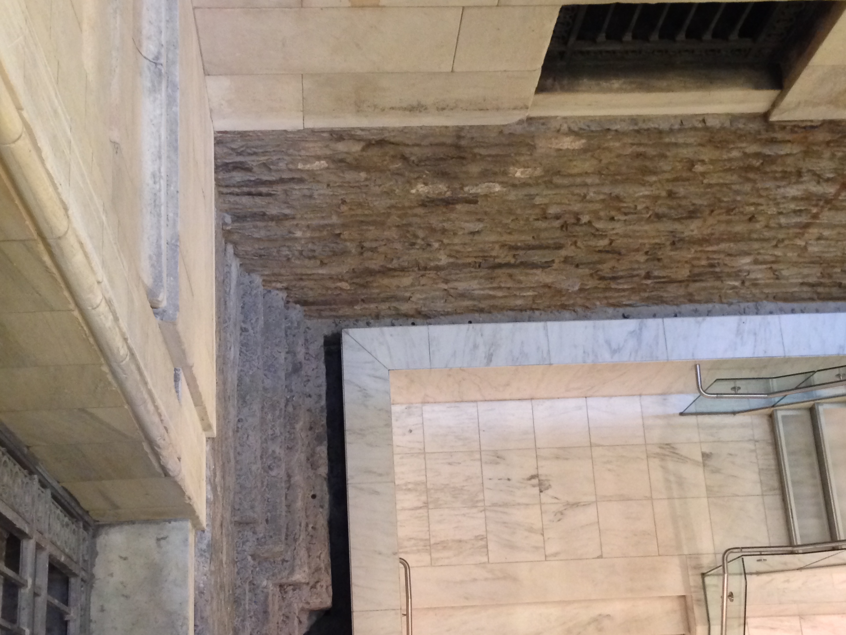 Remnant of Croton Distribution Reservoir can be seen at the foundation of the South Court of the New York Public Library main branch. The stone foundation was from the reservoir. The marbles on top of those stones were built as part of the library.